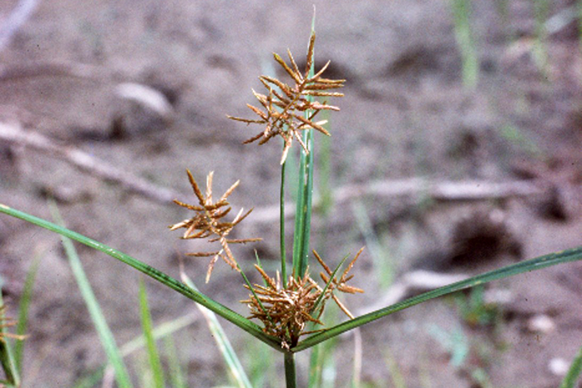 Cyperus odoratus L. - fragrant flatsedge